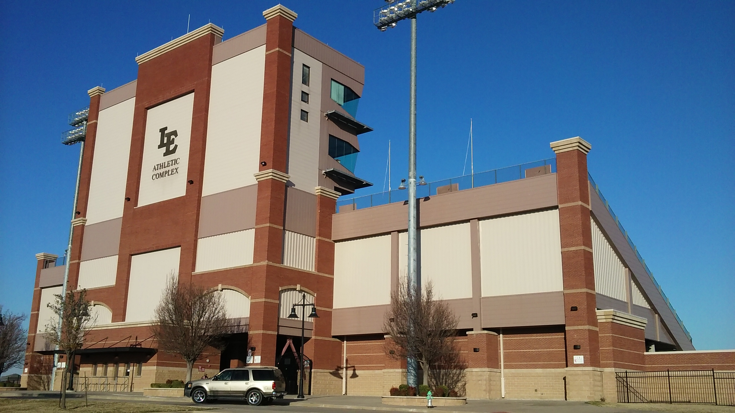 This is a picture of the Little Elm ISD Athletic Complex Stadium in Little Elm, Texas.